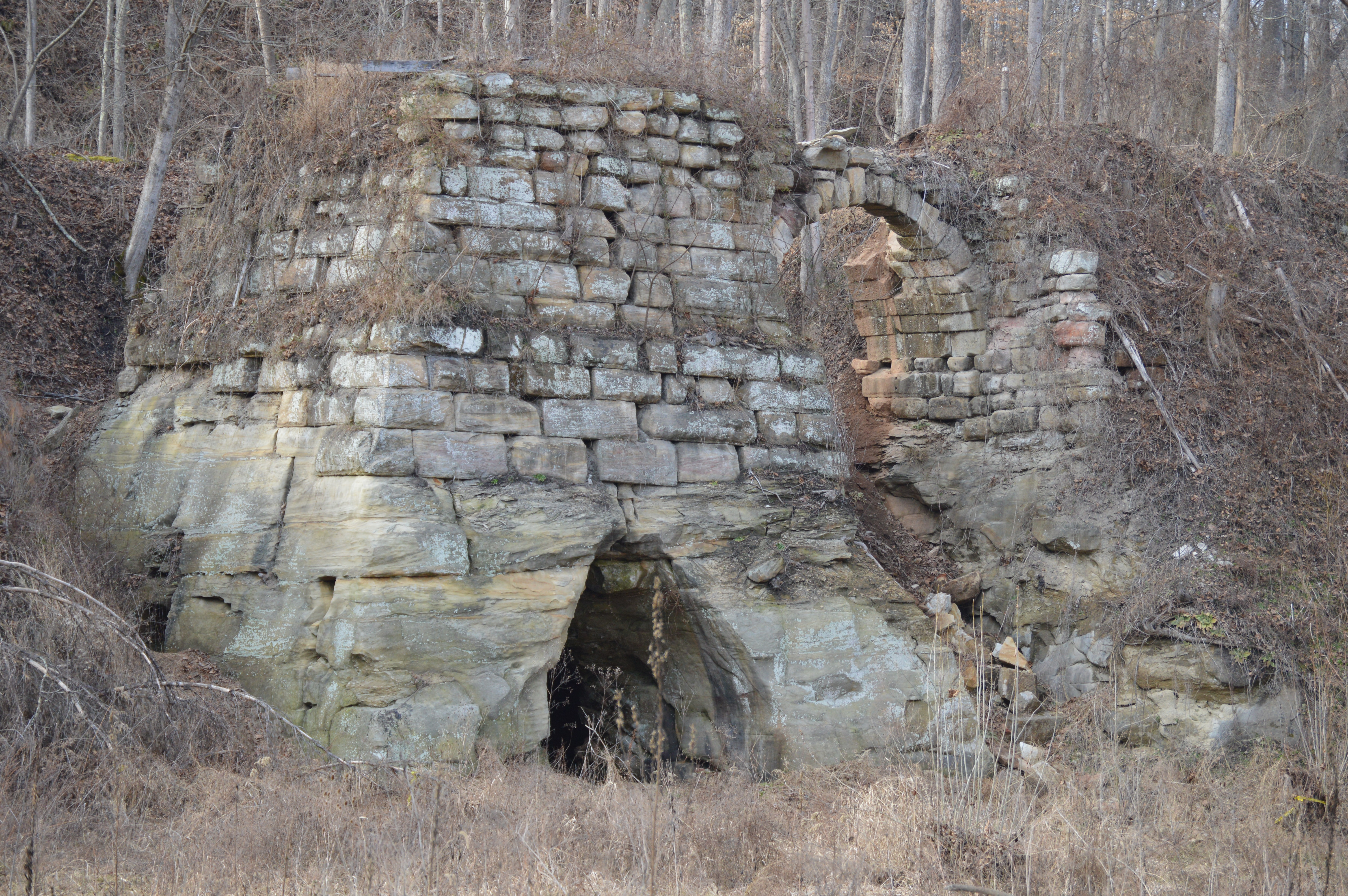 Road view of Olive Furnace, located on State Route 93 in southernmost Washington Township, Lawrence County, Ohio, United States. Built in 1846, it is listed on the National Register of Historic Places.